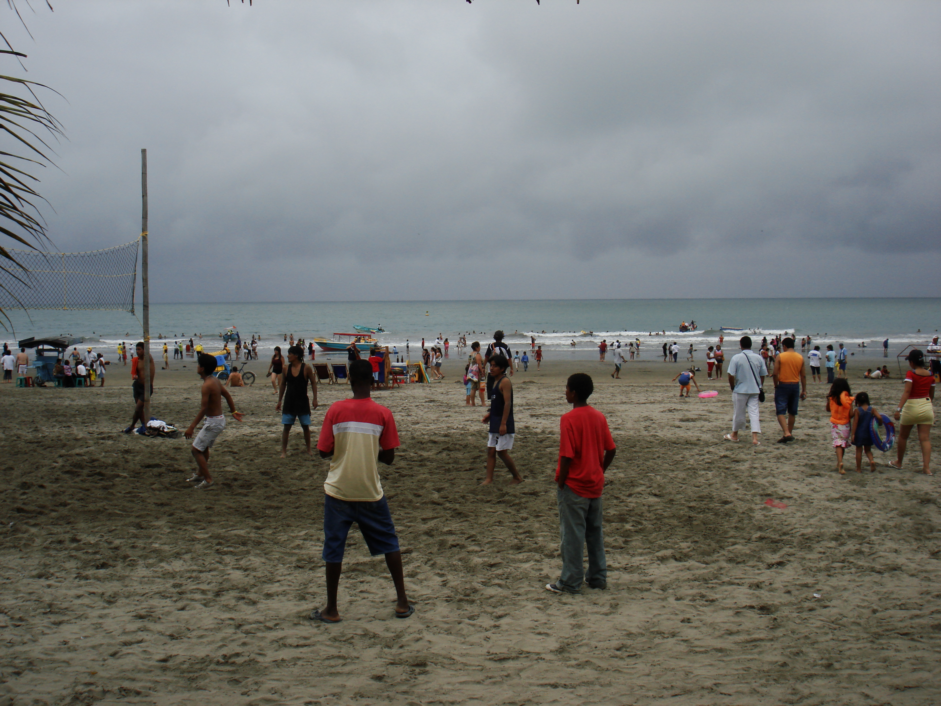 Despite the threatening clouds, the locals made the best of the beach, playing Ecuavolley.